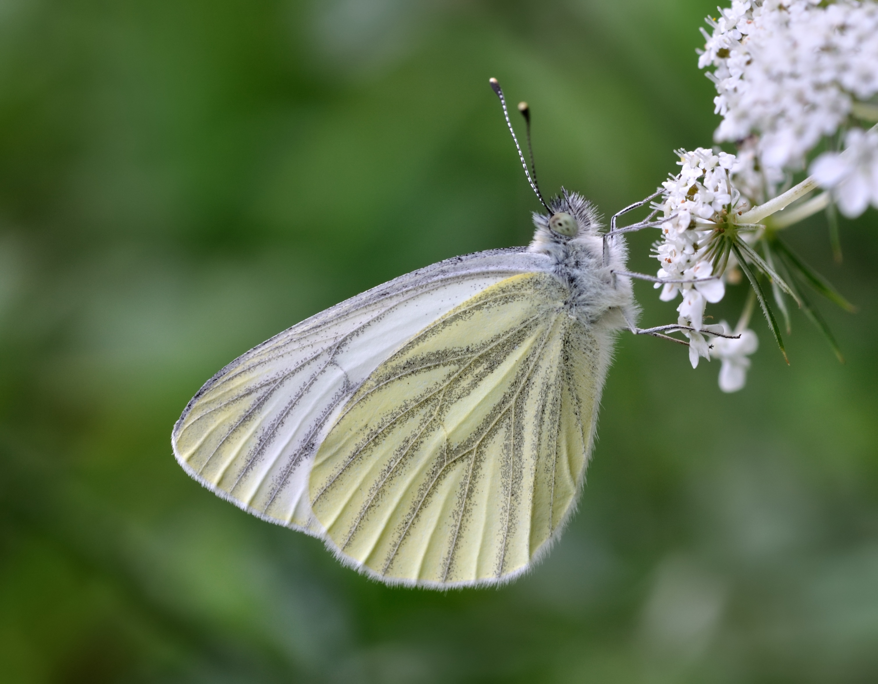 Green-veined White (Pieris napi) on Wild Carrot (Daucus carota) at a retention basin in Ahlen, Germany.